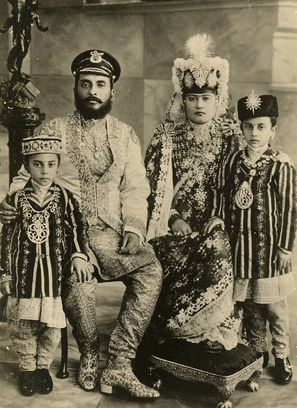 Chandra Shamsher Jung Bahadur Rana and his family in 1900s; aristocratic Rana Chhetri family